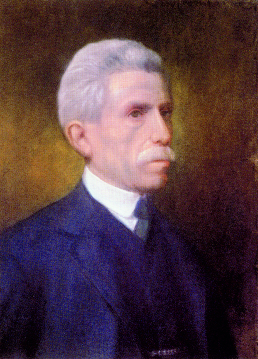 Portrait of Luigi Battei (1847-1917), editor from Parma.